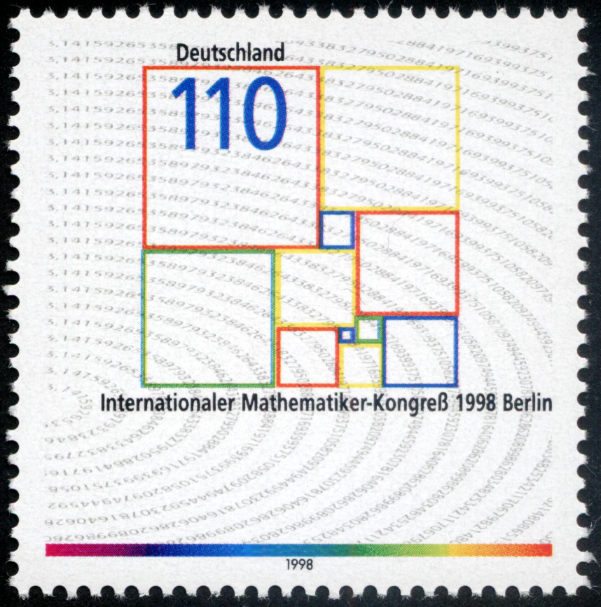 Stamp from Deutsche Post AG from 1998, International Congress of Mathematicians in Berlin